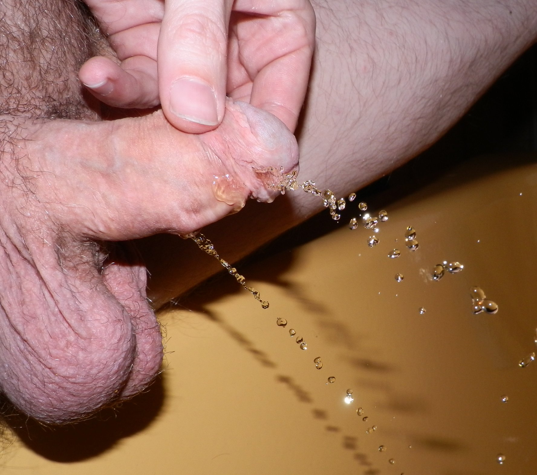 urinating penis with hypospadias and two fistula